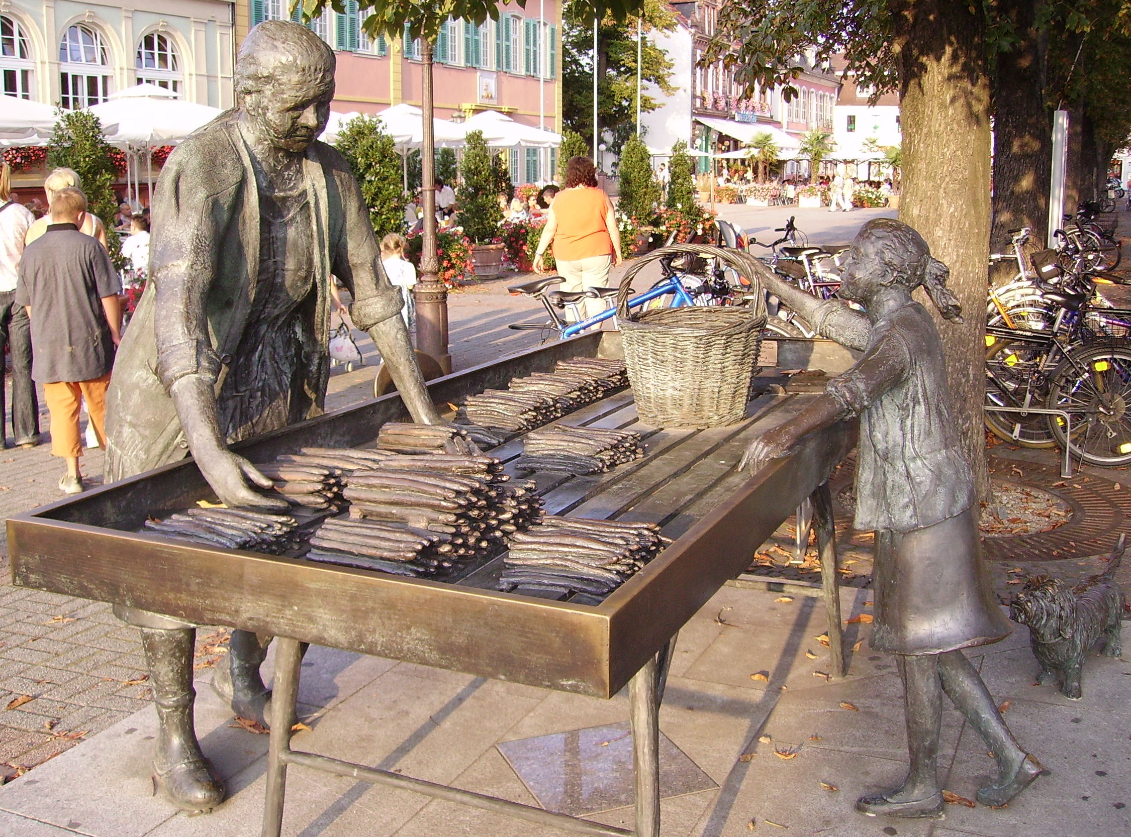 asparagus monument in Schwetzingen, Germany